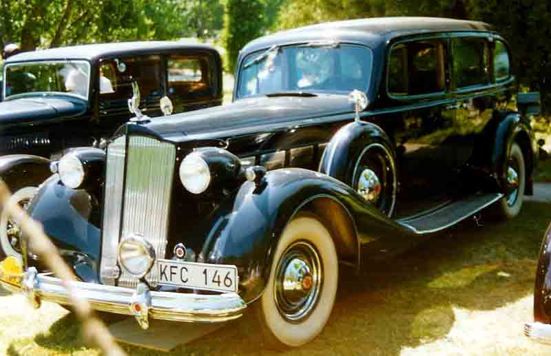 Packard Fifteenth Series Super Eight 1502 Touring Limousine 1937